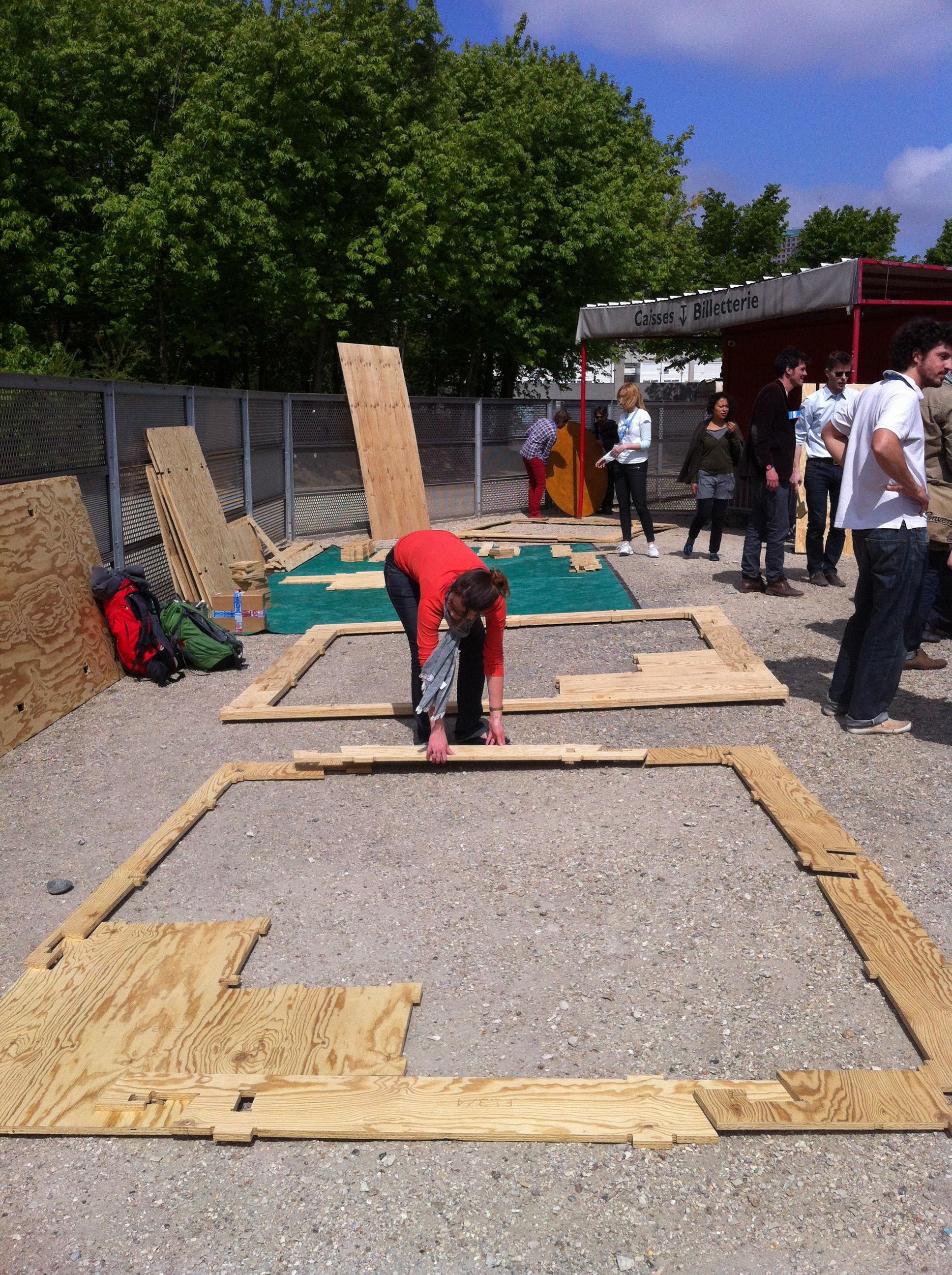 Ouisharefest | Wikihouse